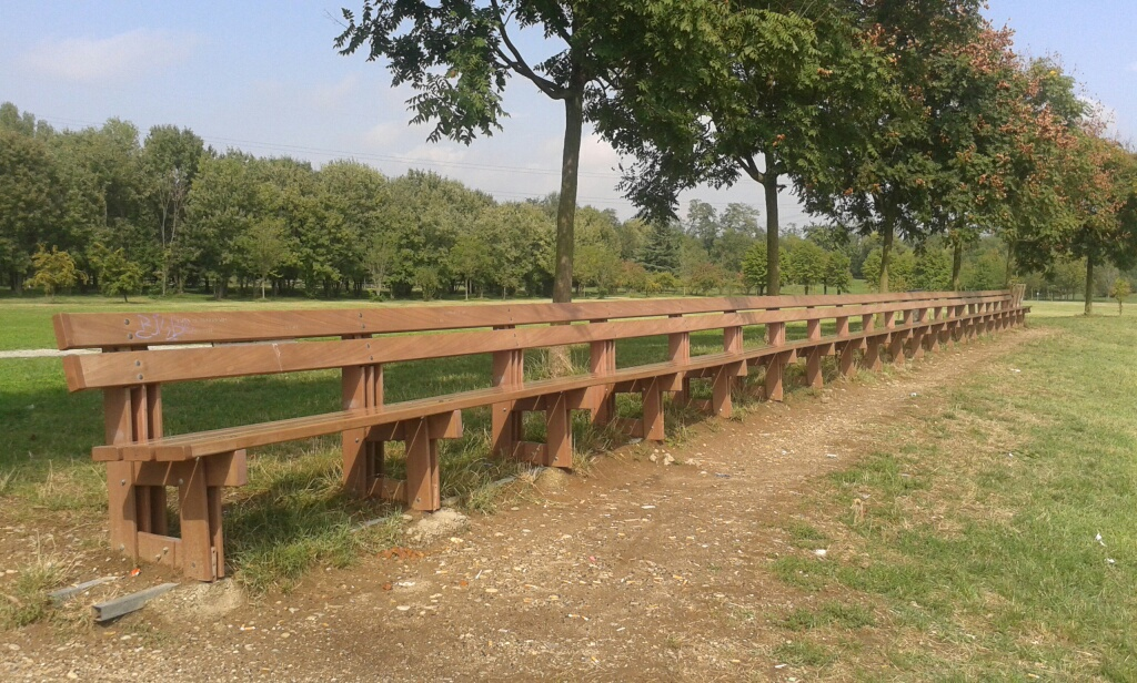 The longest bench - front